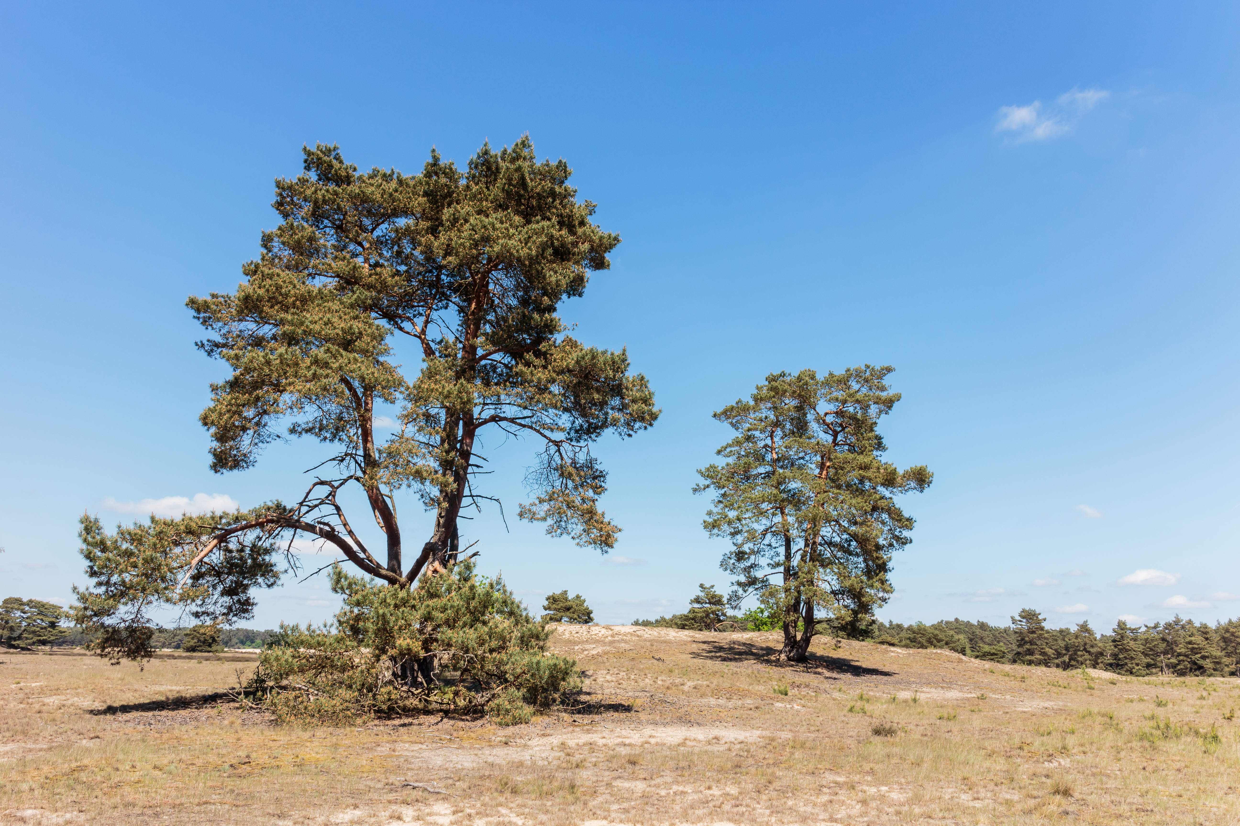 Walk across the Hulshorsterzand/ Hulshorsterheide. 2 Pinus sylvestris in zandverstuiving.